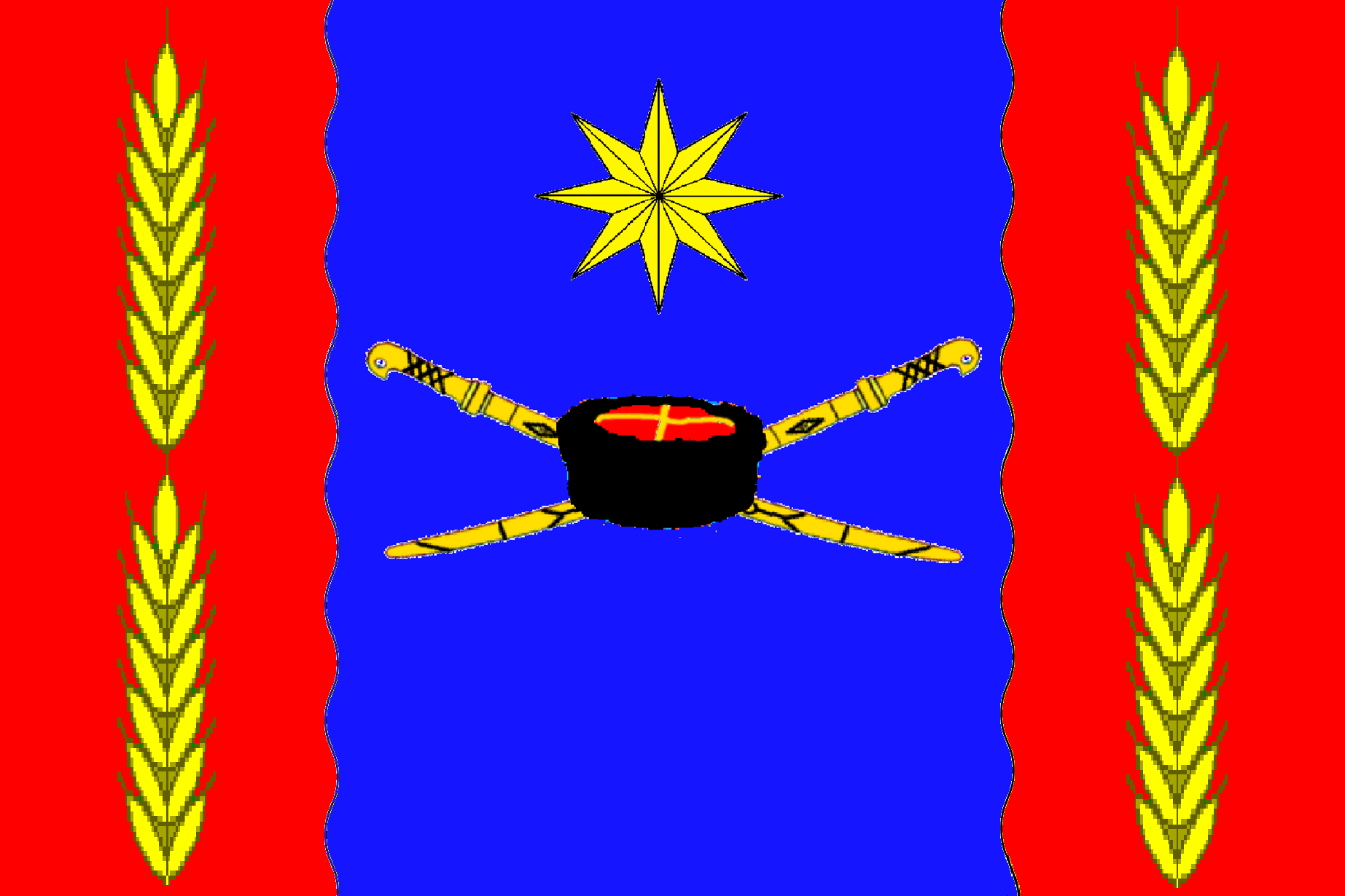 Flag of Giaginskaya municipality